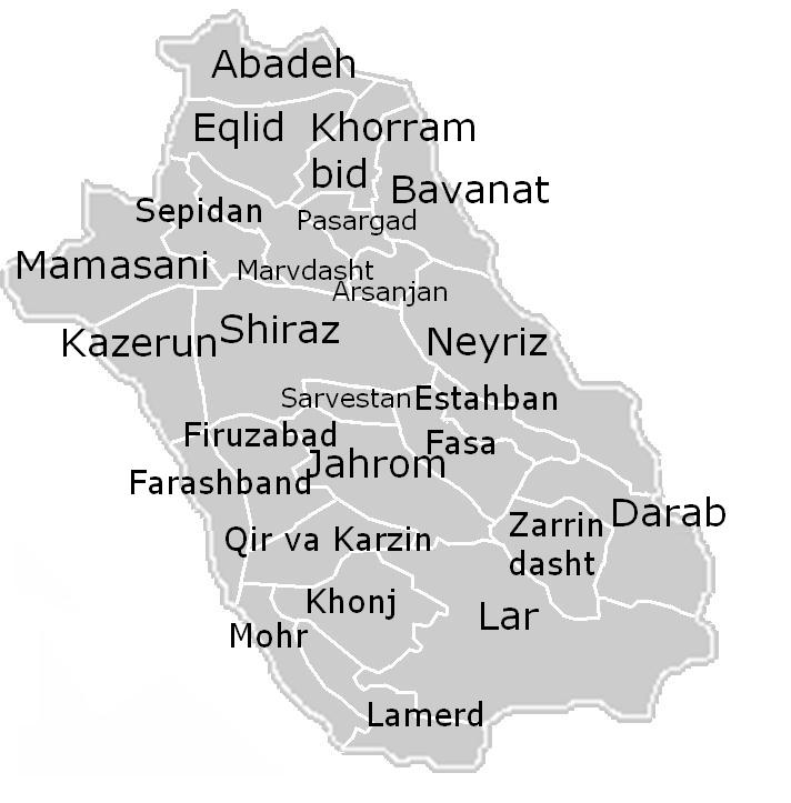 The province of Fars in Iran.